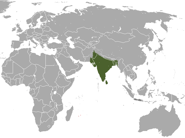 Indian Hare (Lepus nigricollis) range (green - native, red - introduced, dark grey - origin uncertain)